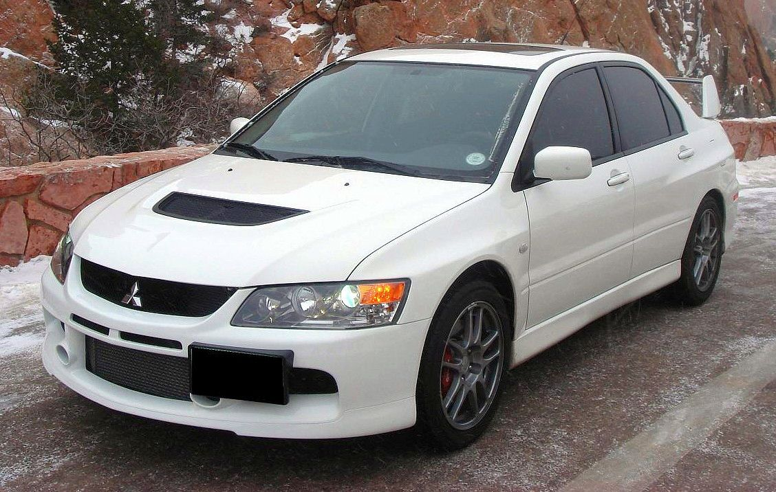 Mitsubishi Lancer Evolution IX